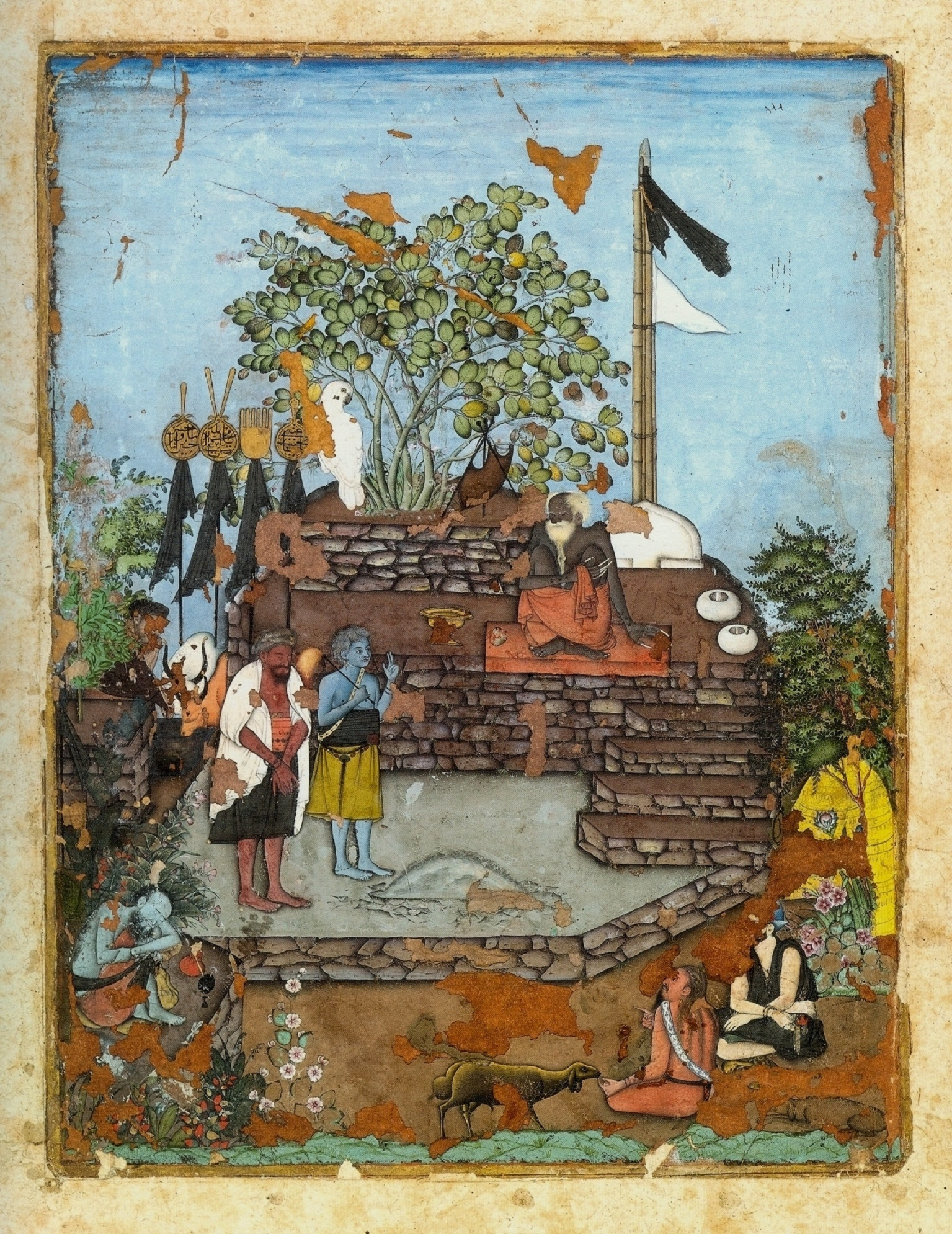 Attr. to the Bodleian Painter. Dervish Receiving a Visitor, Bijapur ca. 1610-20, Bodleian Library, University of Oxford.